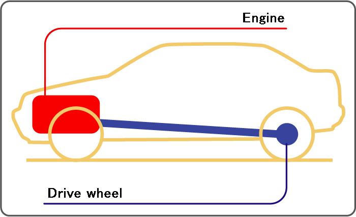 Sketch of FR(front-engine, rear wheel drive) layout